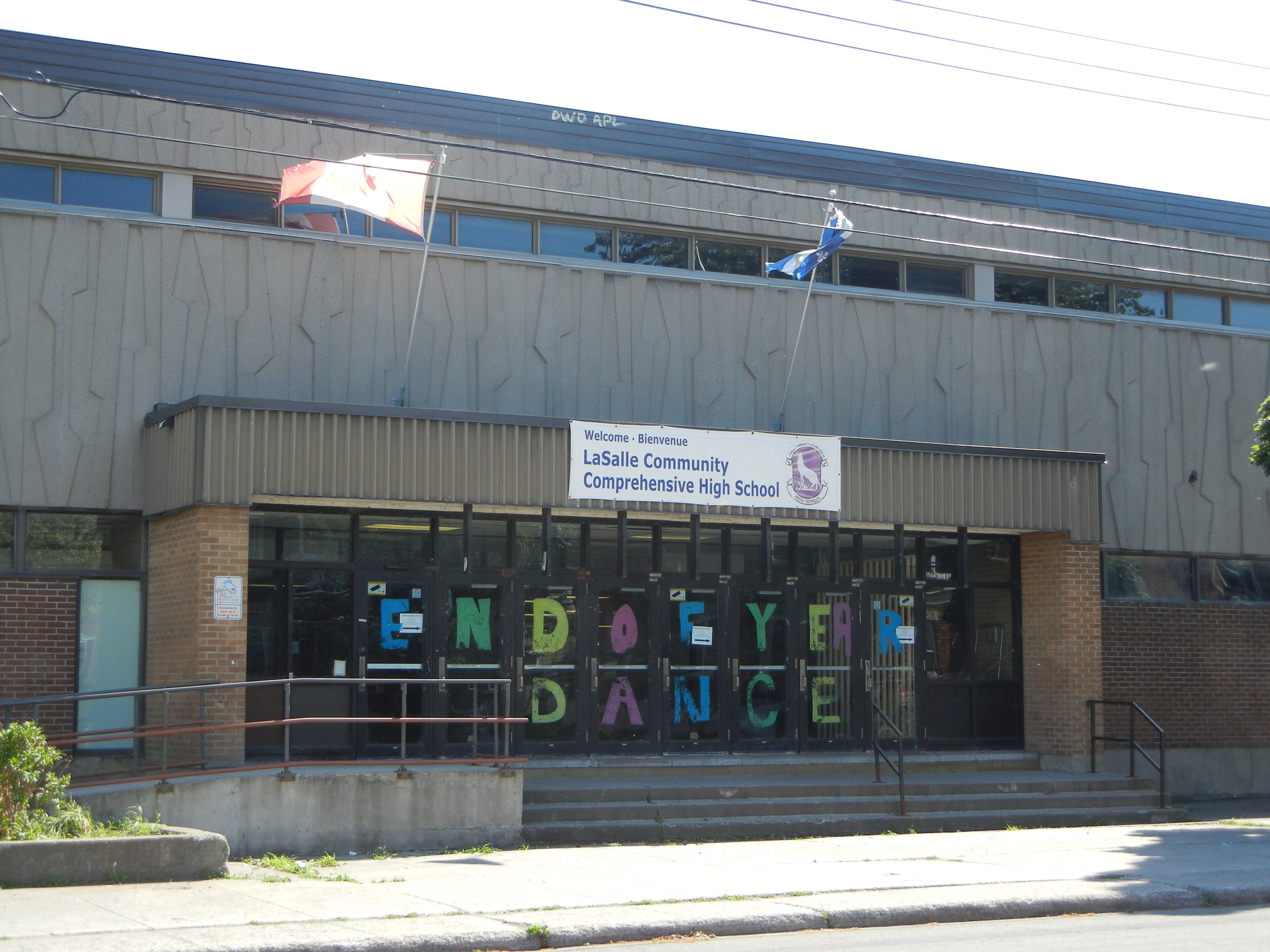 A picture of the main entrance to LaSalle Community Comprehensive High School in LaSalle, Quebec, Canada. The words "END OF YEAR DANCE" are displayed in the front window panes.